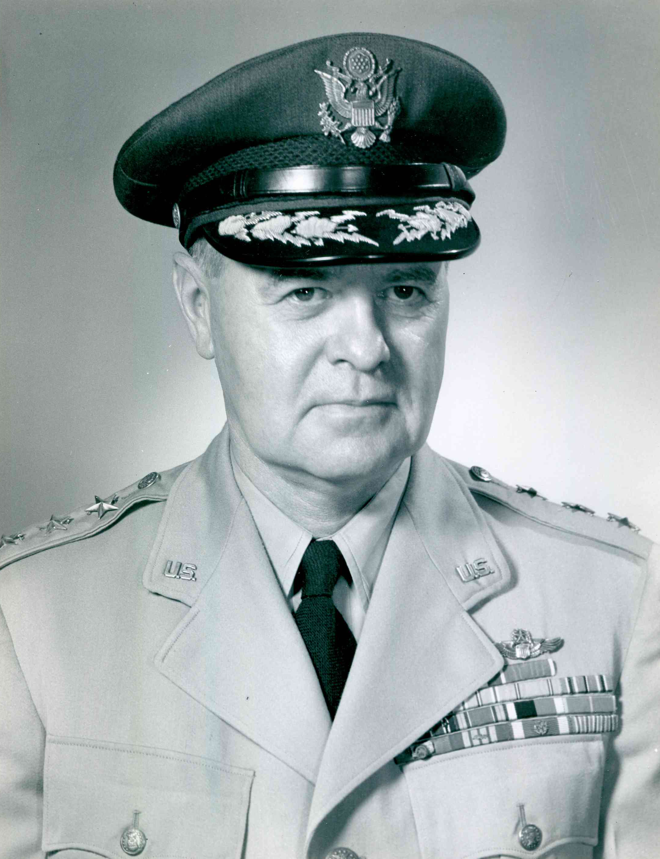 Lieutenant General Idwal H. Edwards.